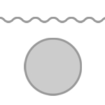 The image shows an underwater habitat type 4